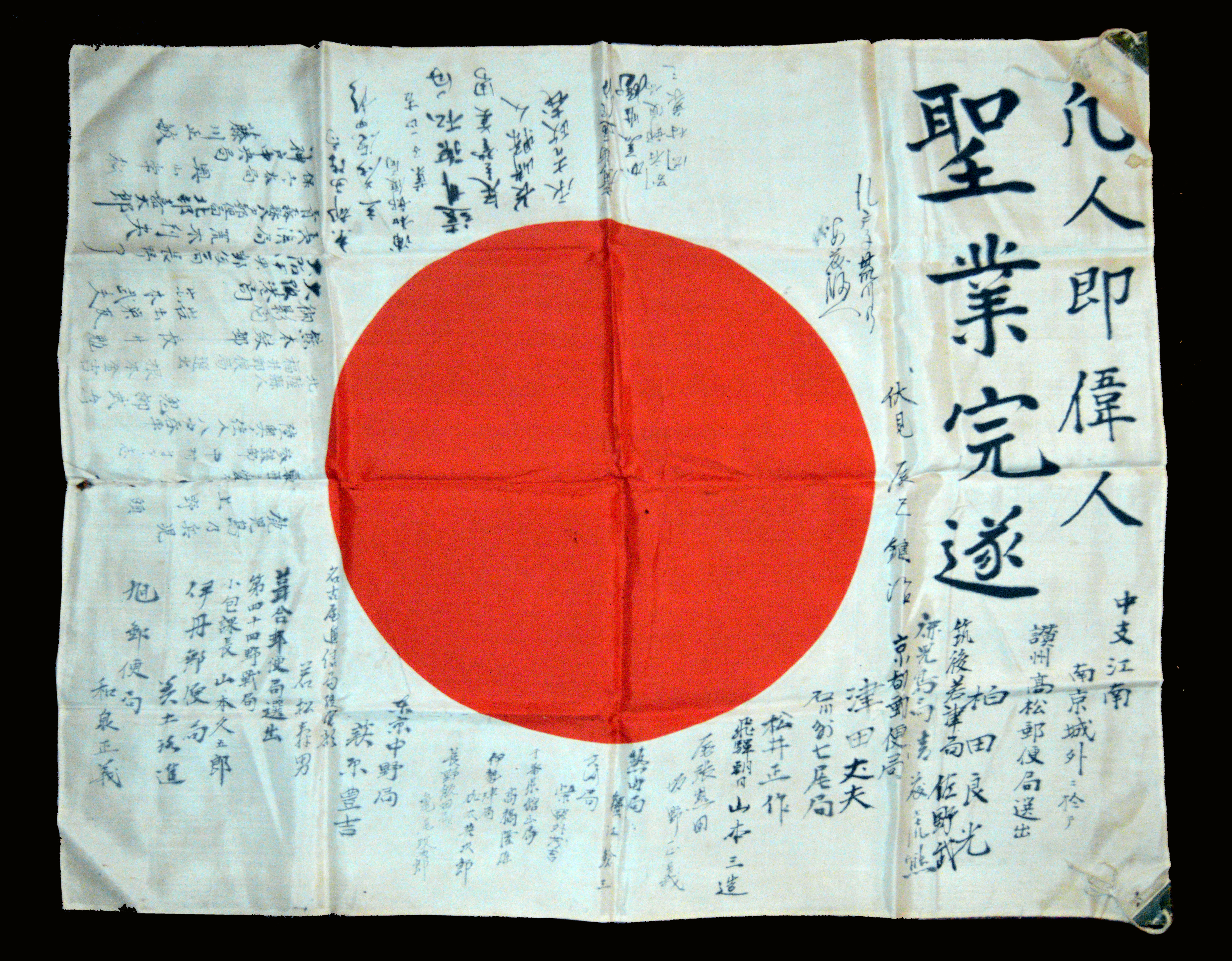 WWII Japanese soldier's inscribed silk "Good Luck" flag, 26" x 29"